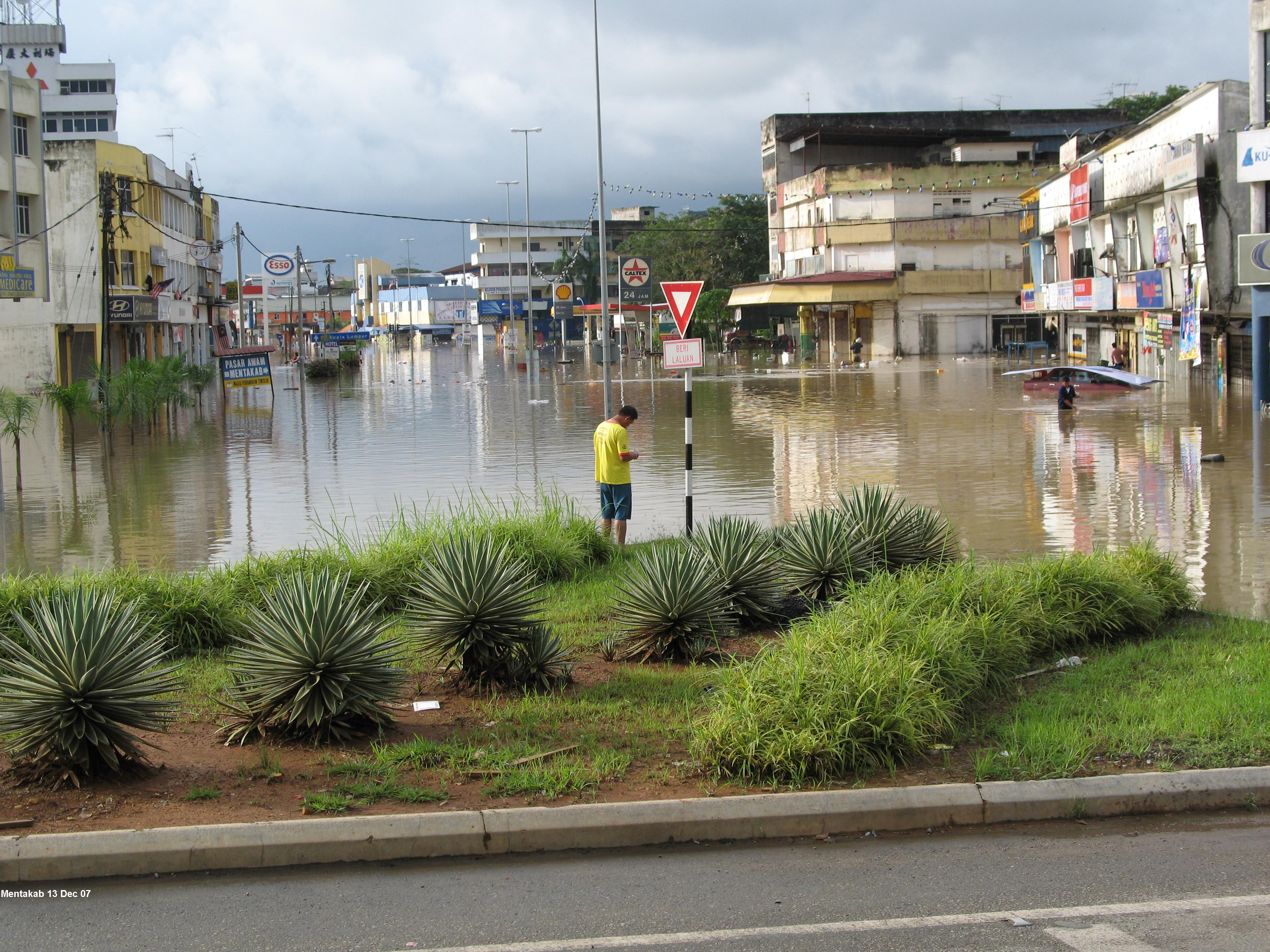 I was traveling to Kuala Lumpur from Kuantan on 13 December 2007 together with my wife and daughter. We were blocked near Temerloh-Mentakab due to the flood. I managed to snap some pictures of the flood scene in Mentakab. We proceeded to go to Kuala Lumpur on that day using alternative road, although the journey took much longer and more tiring.